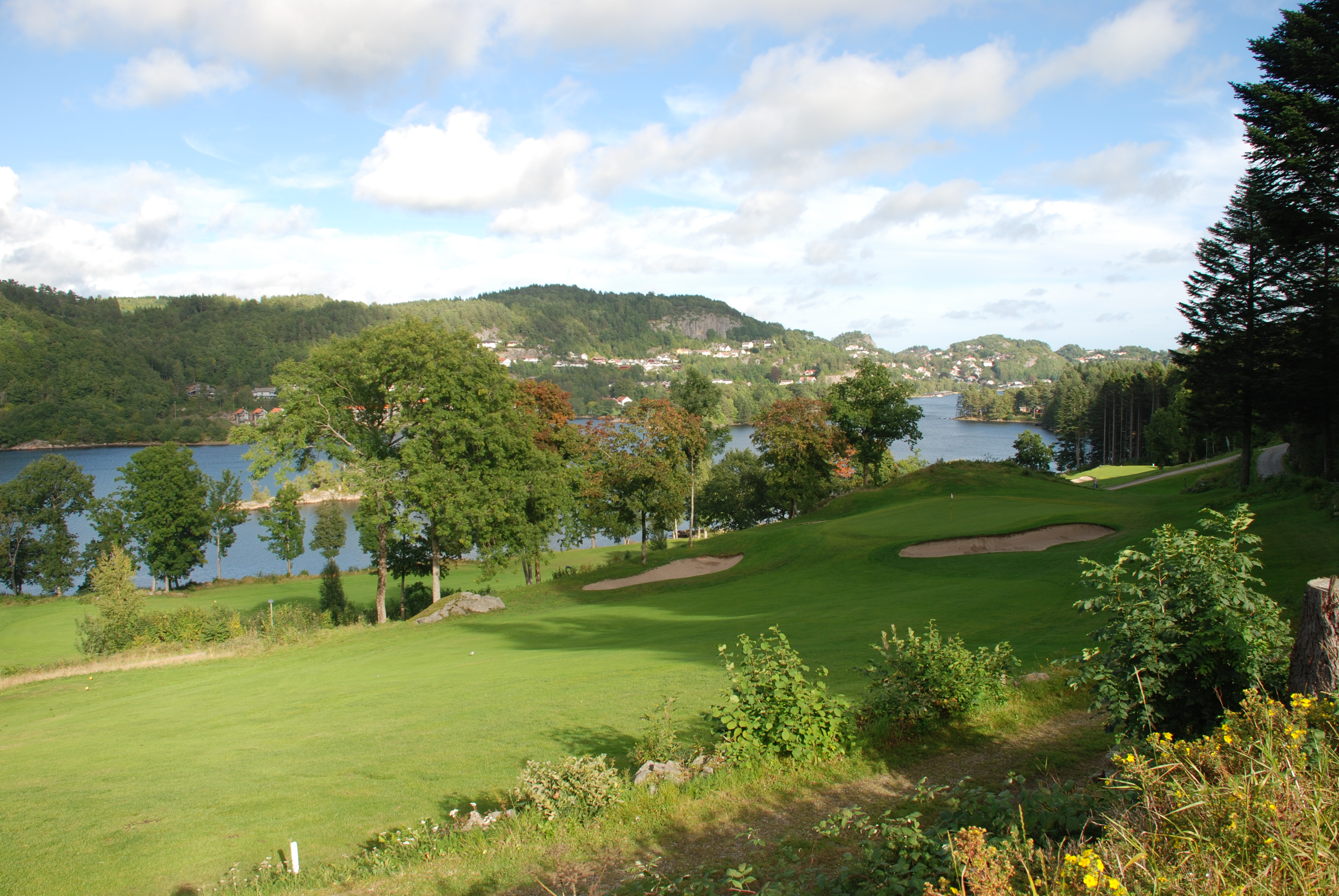 Mandal golfclub, hole nummer 1.